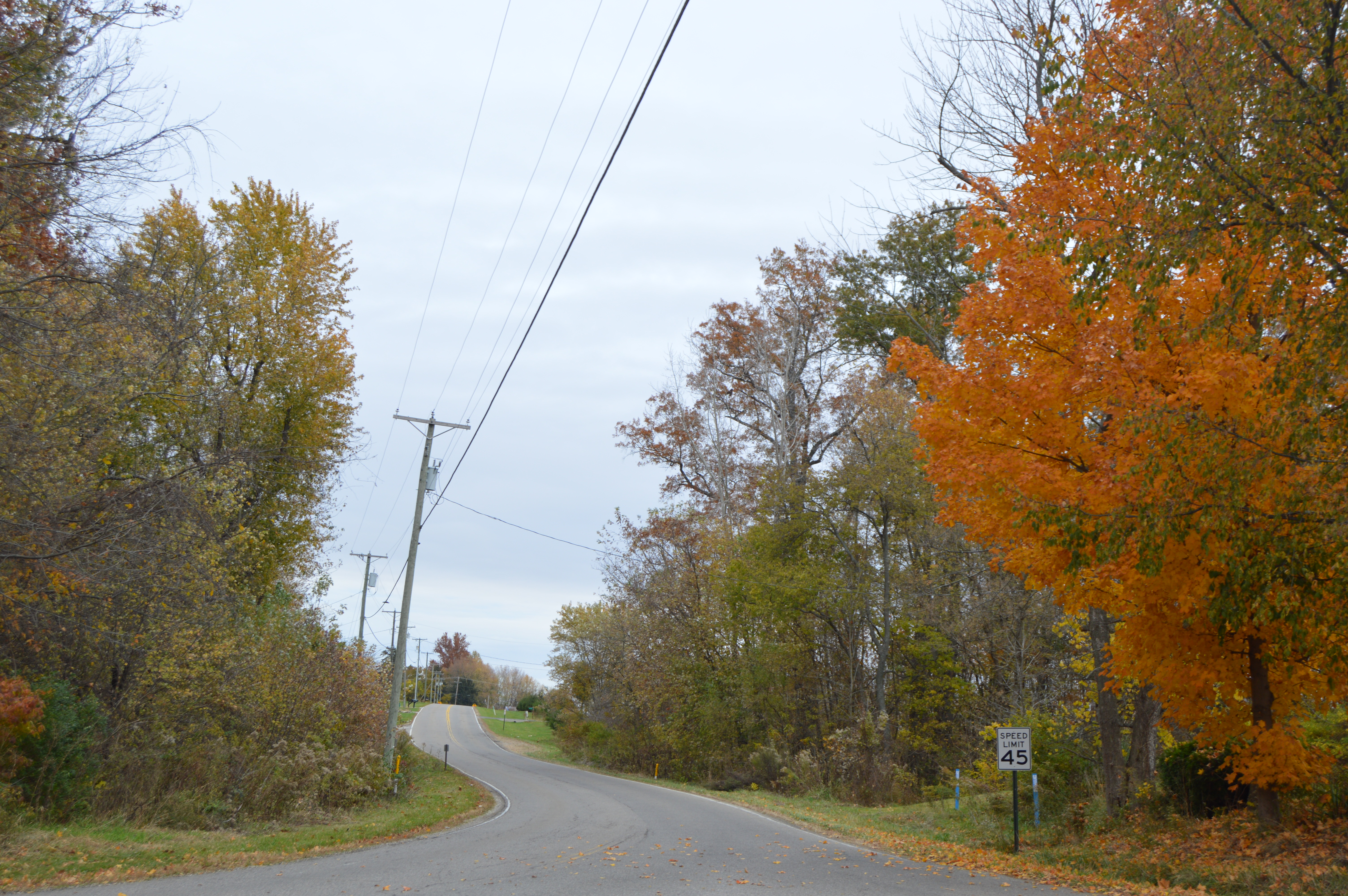 Looking north on Mill Dam Road from the Cristland Hill Road intersection, northeast of Buckeye Lake, in Union Township, Licking County, Ohio, United States.